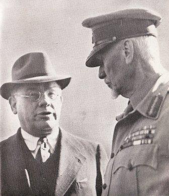 Photograph of South African Deputy Prime Minister Jan Hofmeyr on the left and South African Prime Minister Jan Smuts on the right